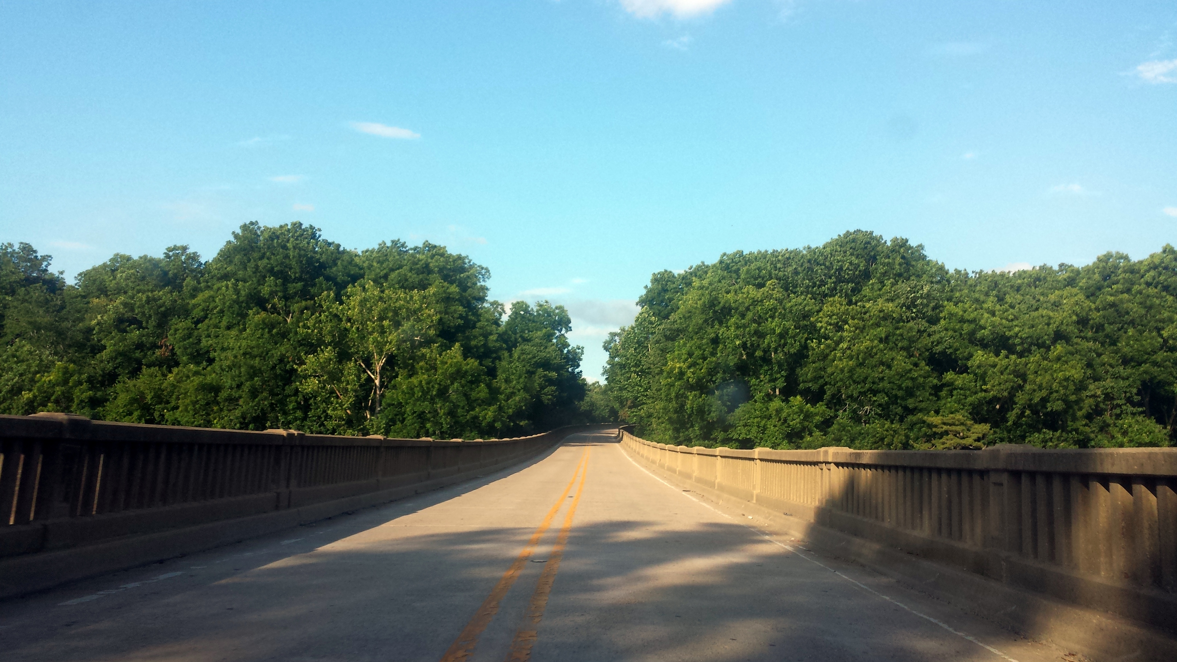 Western approach of White River Bridge near, Clarendon, AR